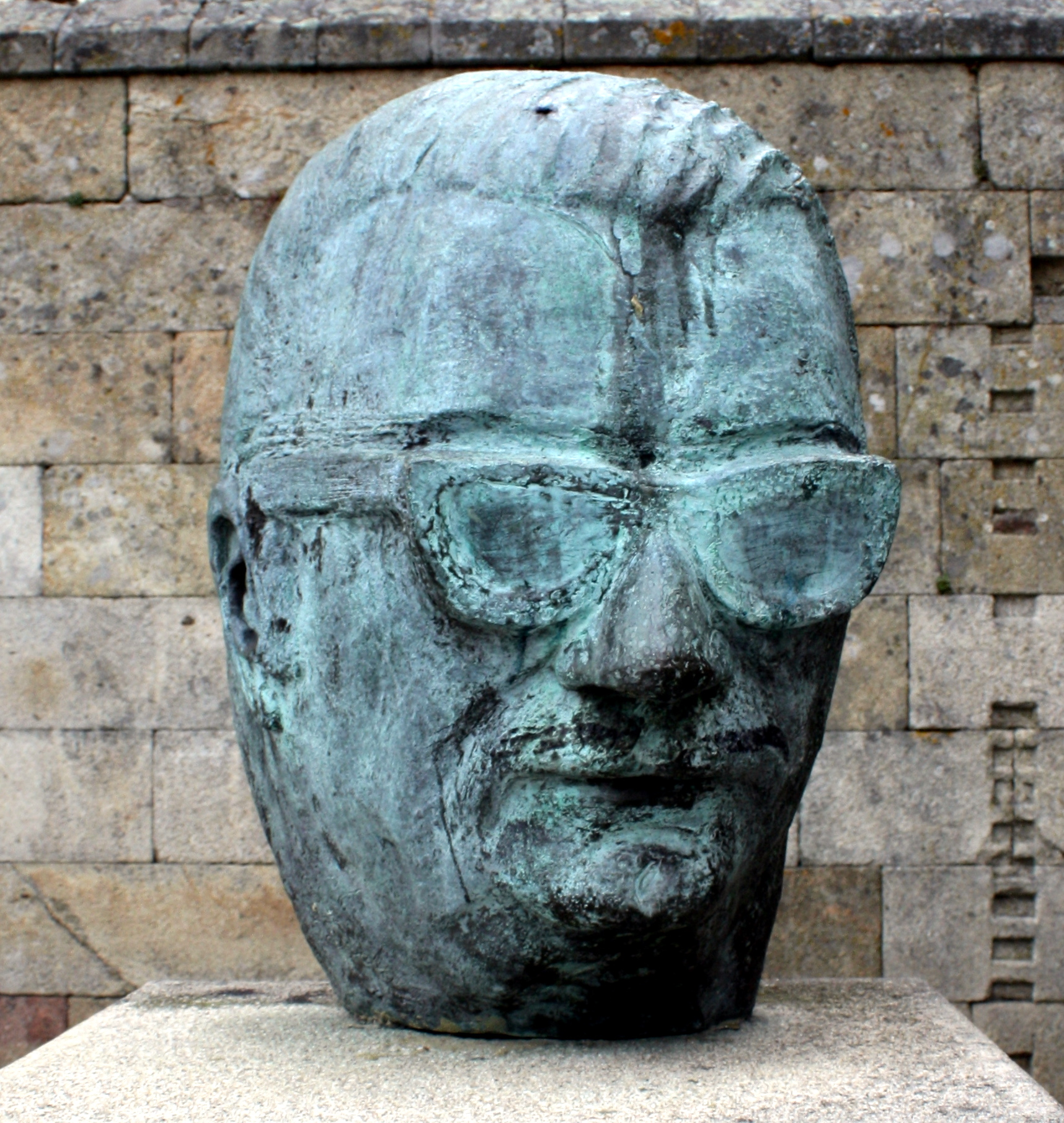 Bust of Celso Emilio Ferreiro, in Celanova